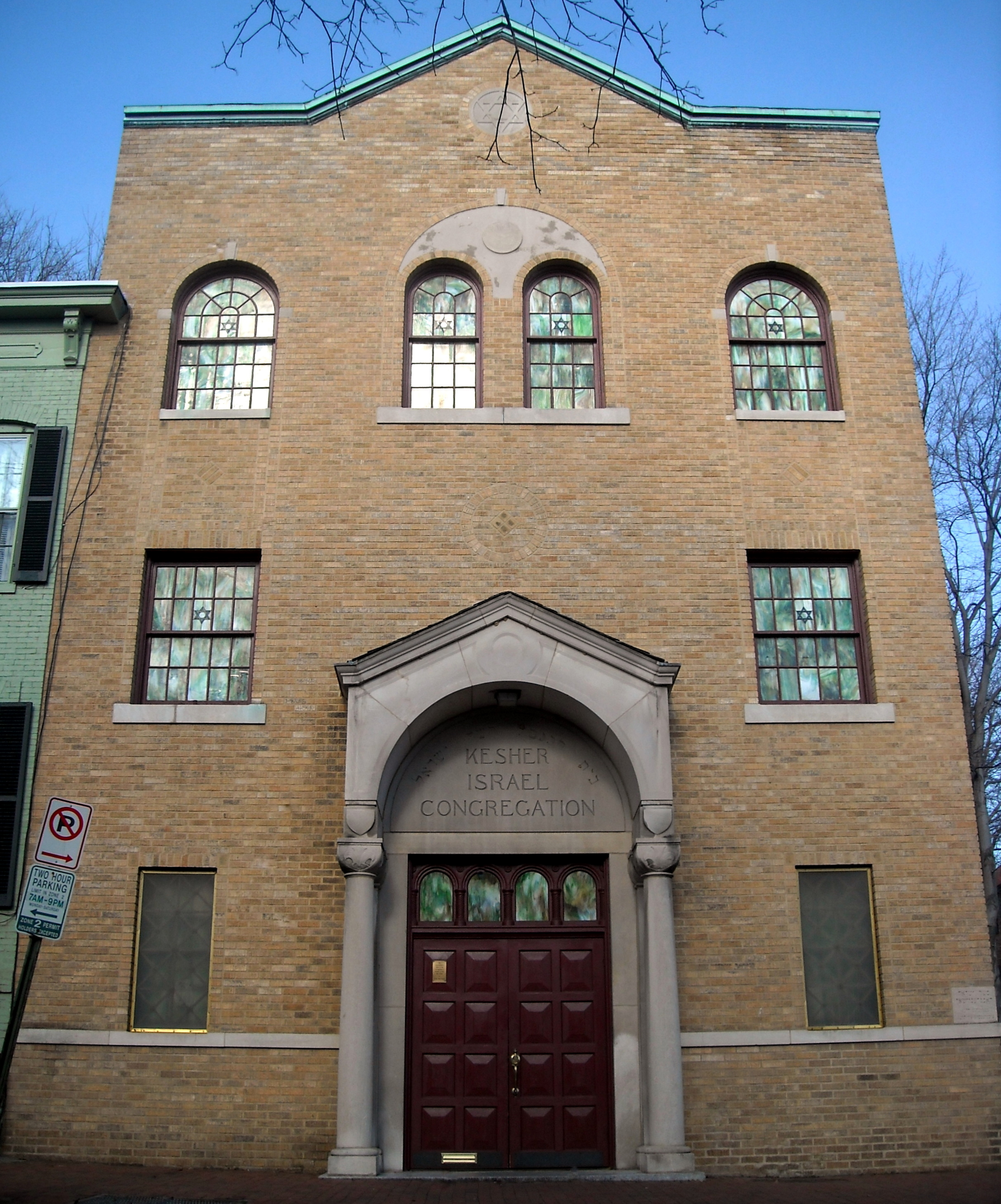 Kesher Israel, located at 2801 N Street, N.W., in the Georgetown neighborhood of Washington, D.C. The synagogue is a contributing property to the Georgetown Historic District, a National Historic Landmark.